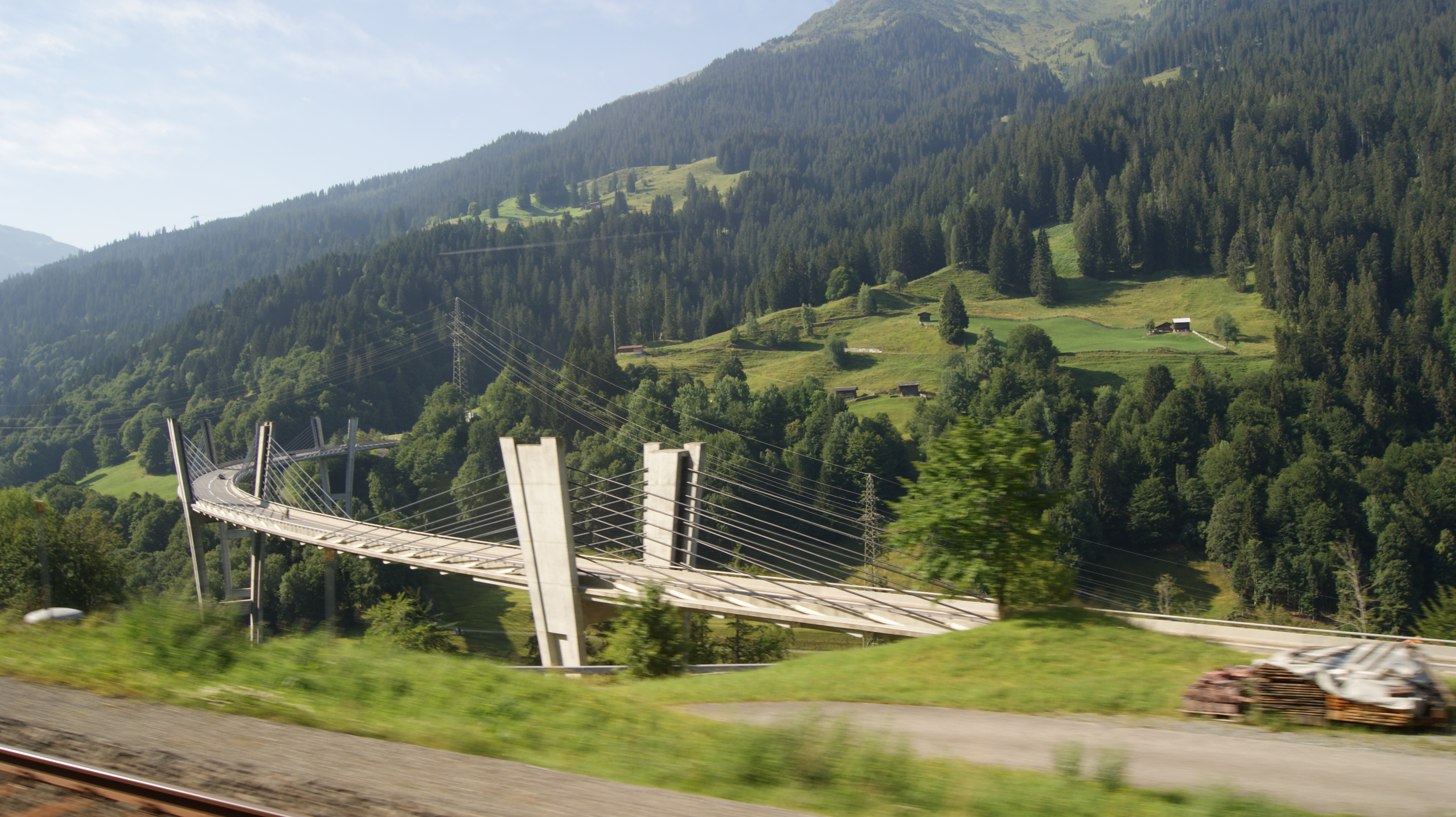 Sunniberg-Bridge at Klosters-Serneus in Switzerland. View from the raetische Bahn